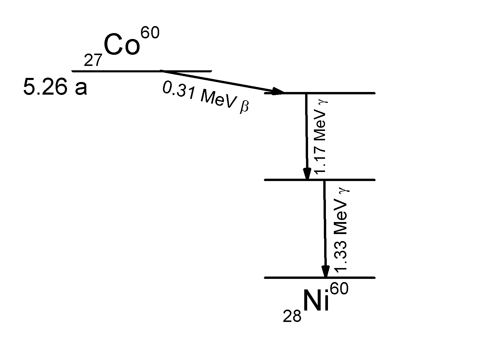 Decay scheme of Cobalt-60